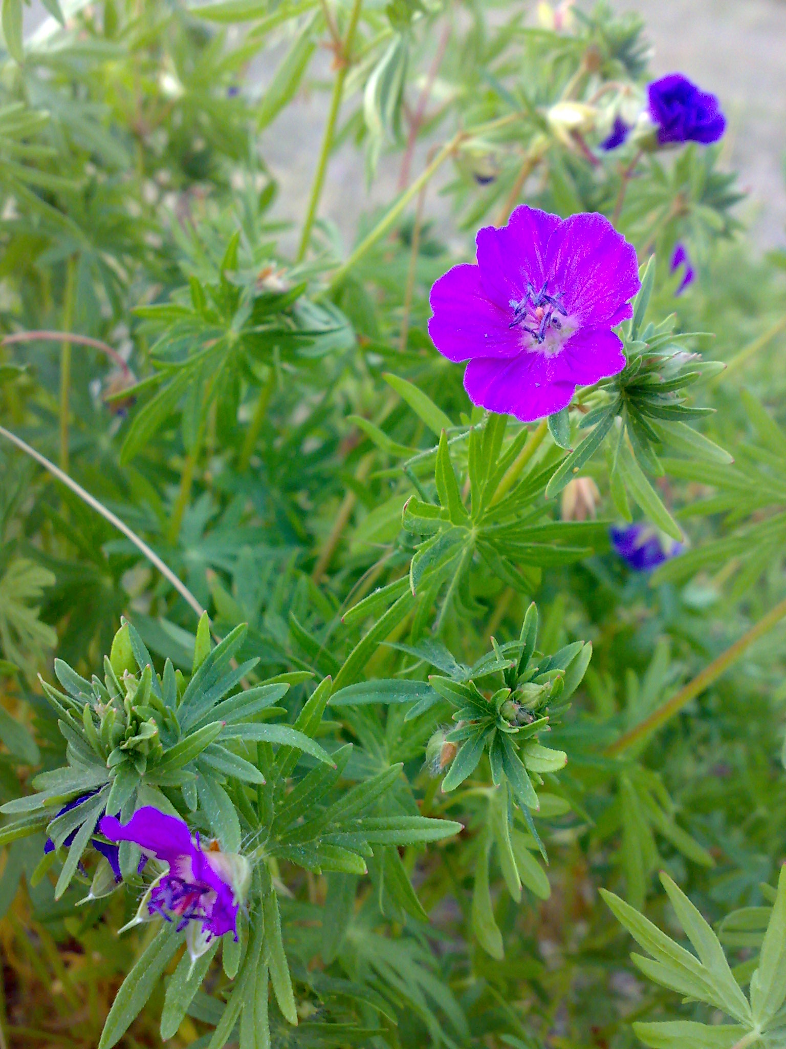 Geranium sanguineum Norway (Hurum)